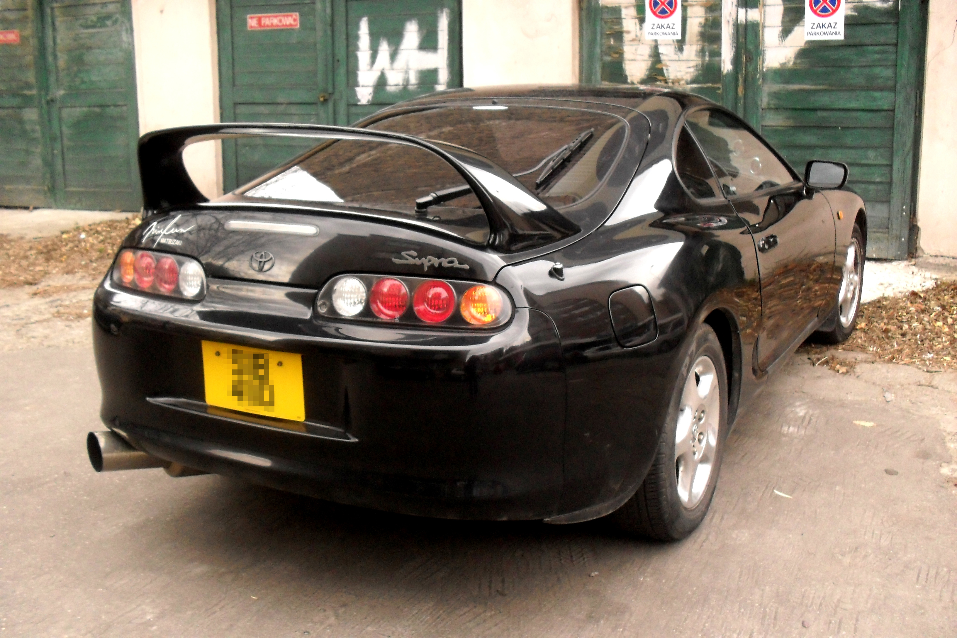 Toyota Supra A80 seen in Kraków, Poland.